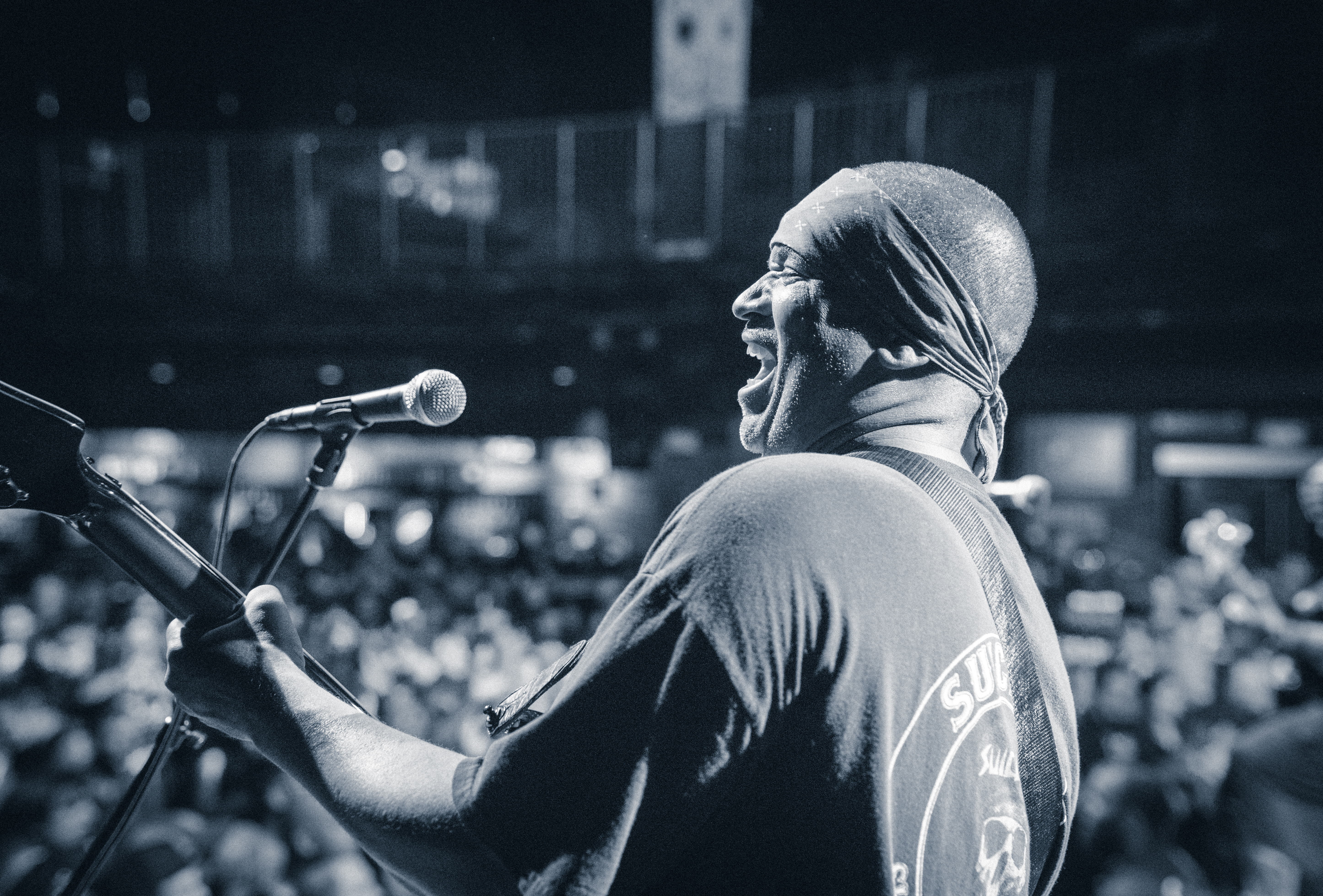 Dean Pleasants at House of Blues in Boston, 9/7/2018. Photo by Matthew Tieuli, @mattydelsol